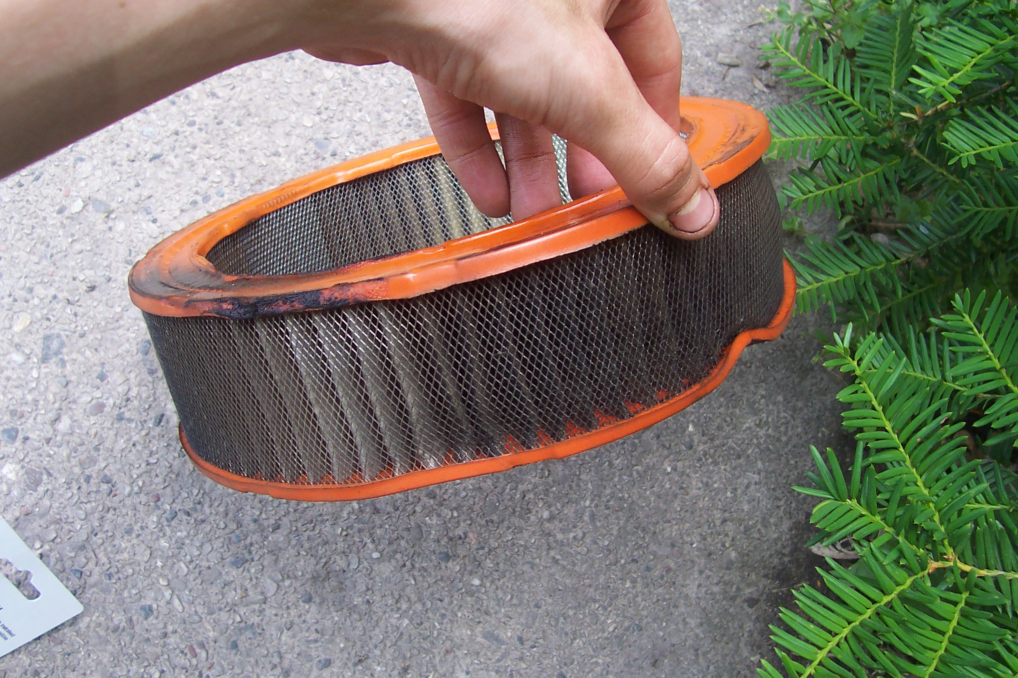 Example of an air filter that has been around 50,000 miles overdue to be replaced.